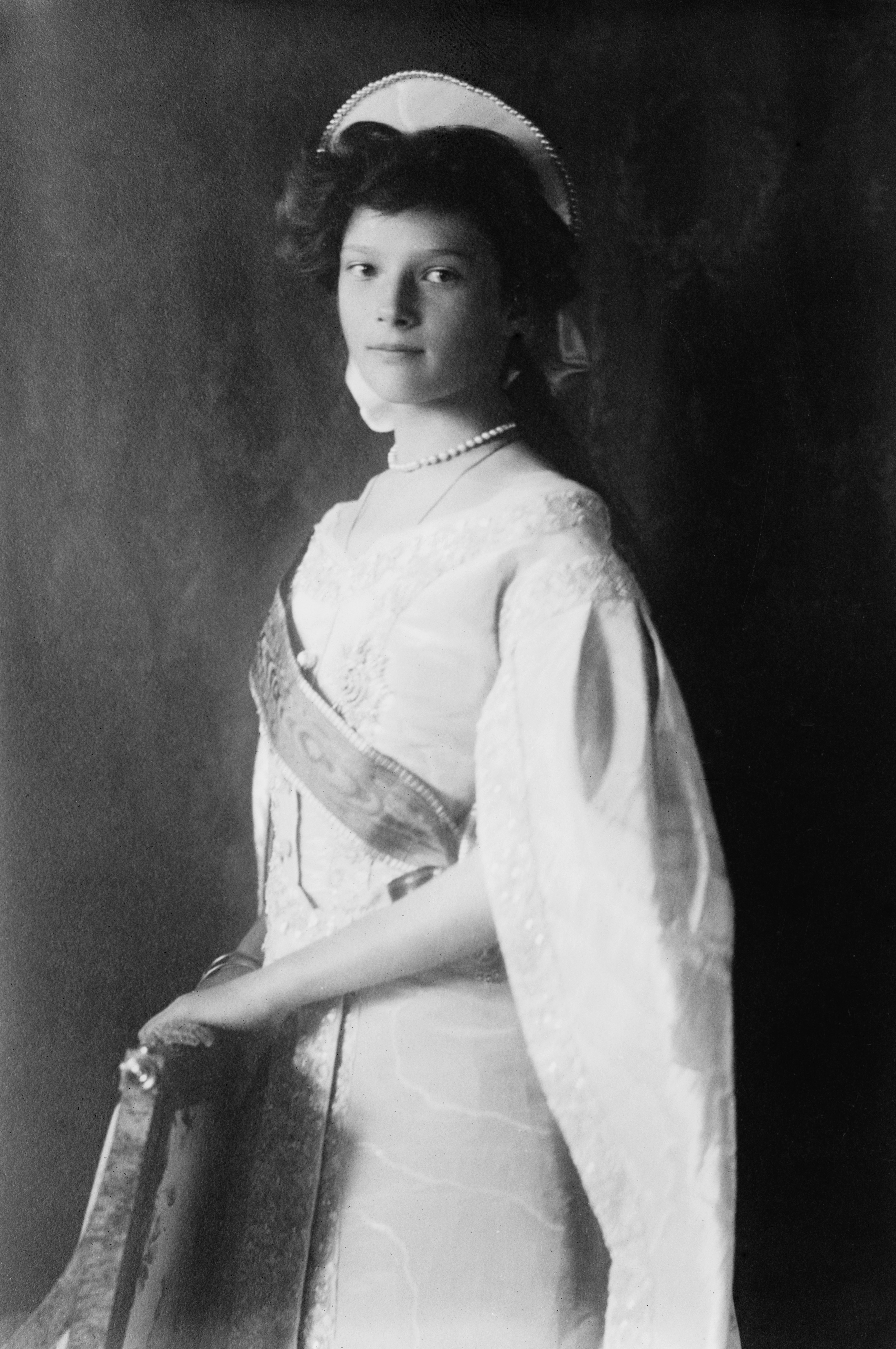 Grand Duchess Tatiana Nikolaevna in court gown.